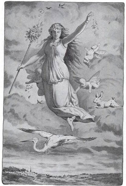 Illustration of Ēostre by Jacques Reich, originally with the caption "Eástre."